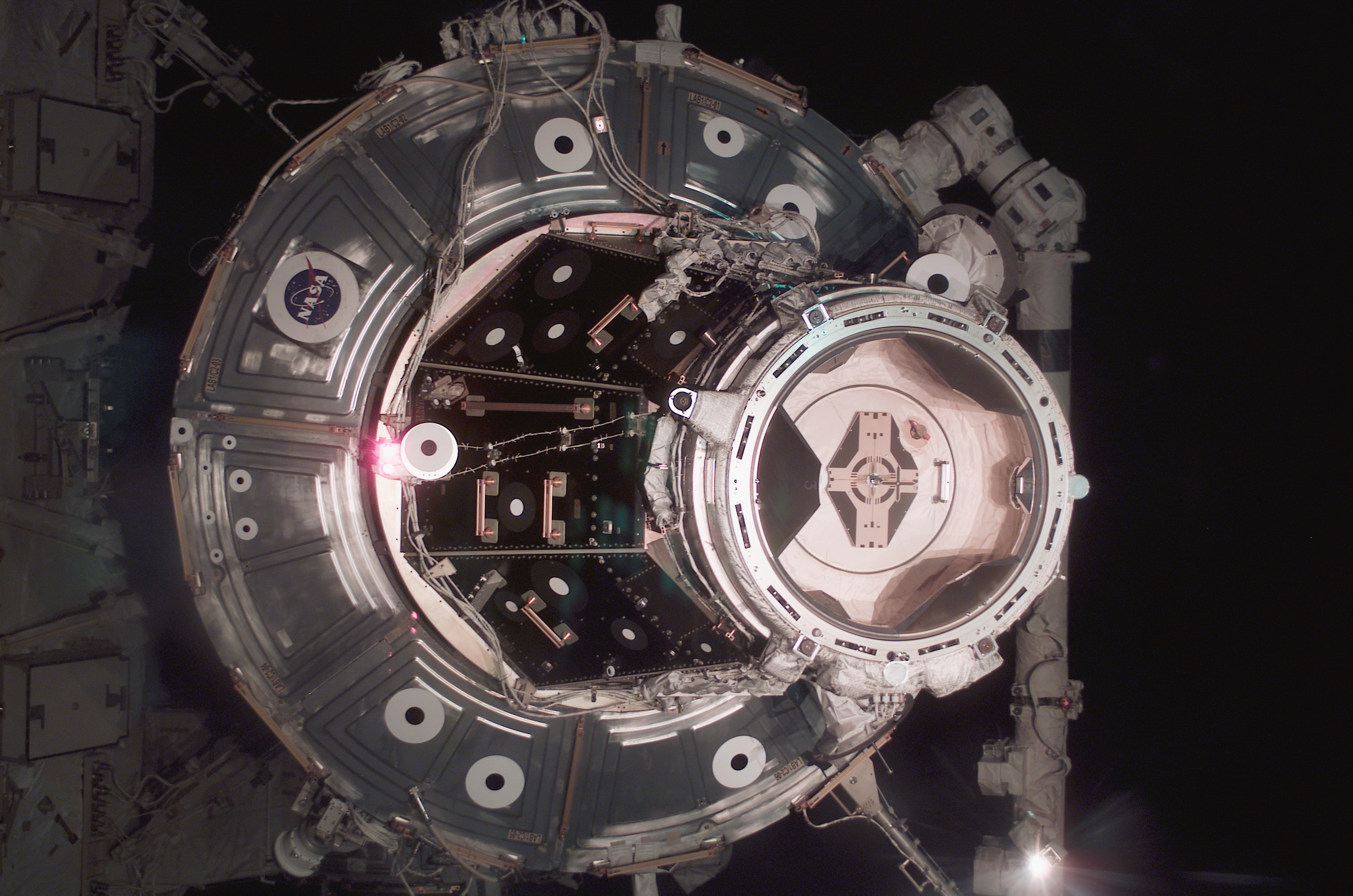 This closeup view of the forward docking port (Pressurized Module Adapter 2) on the International Space Station (ISS) was photographed with a digital still camera by one the STS-111 crew members just prior to docking.